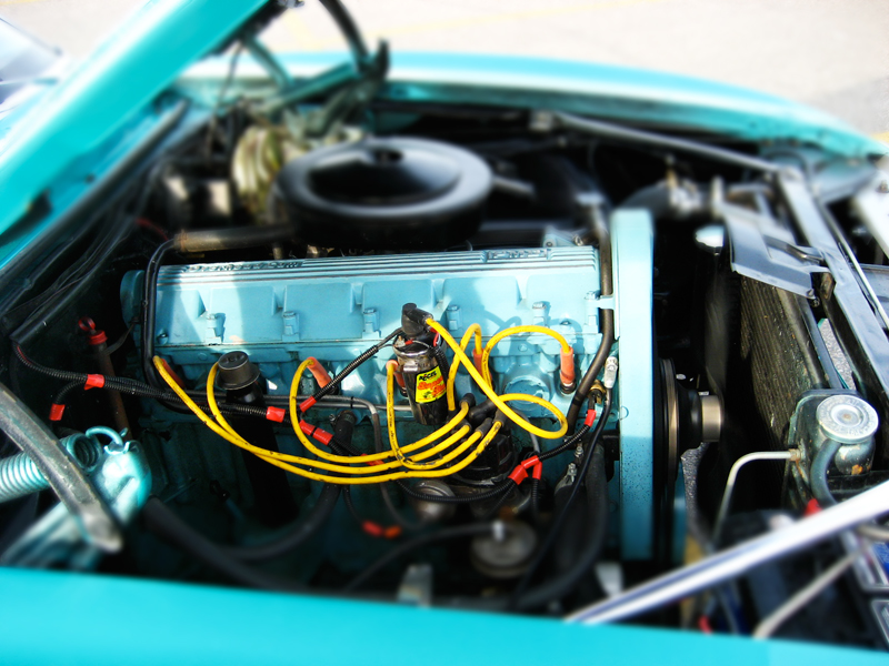 A peek under the hood Not many OHCs left, most have been ripped out in favor of a bigger V8